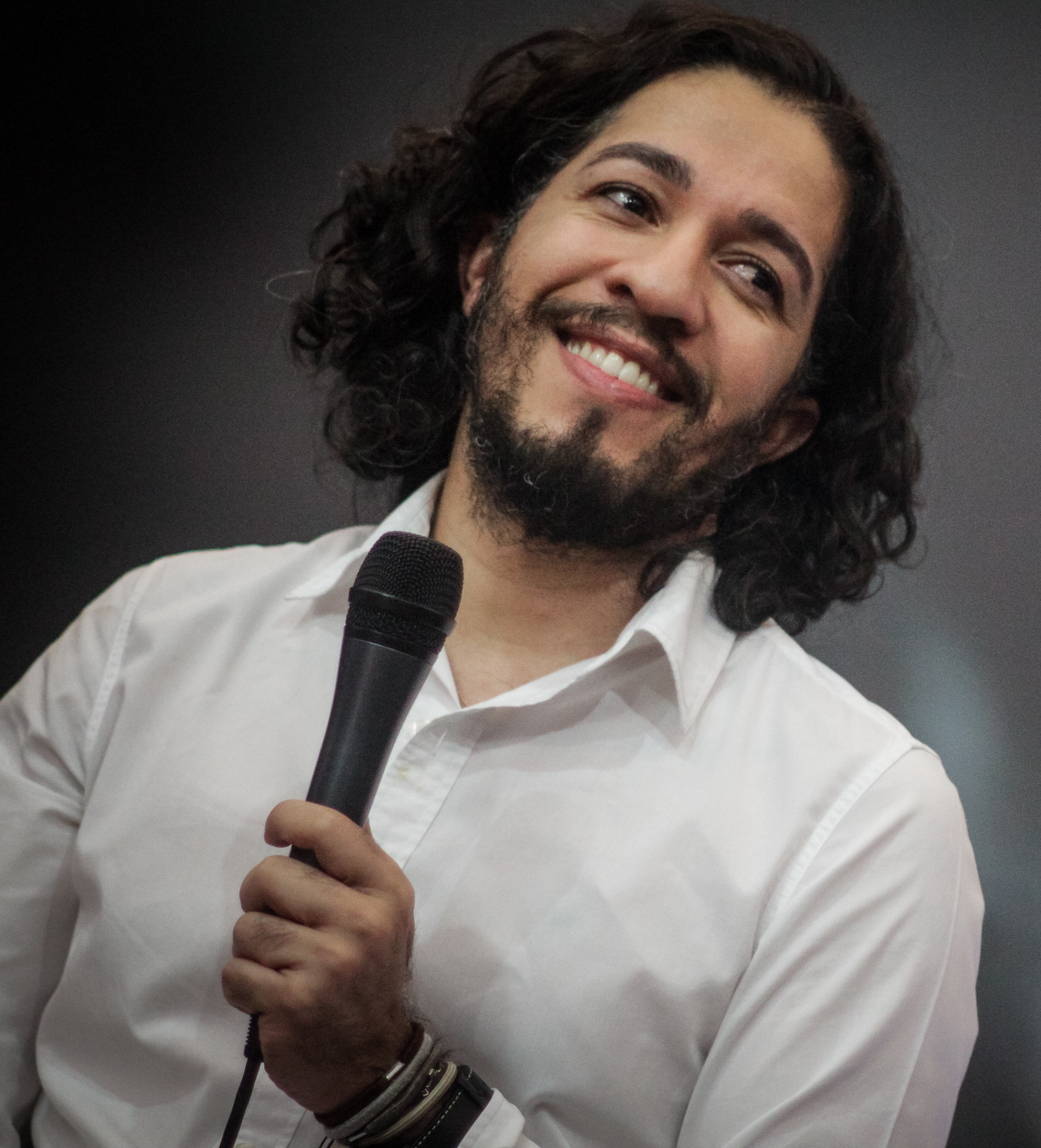 Jean Wyllys in 2015.